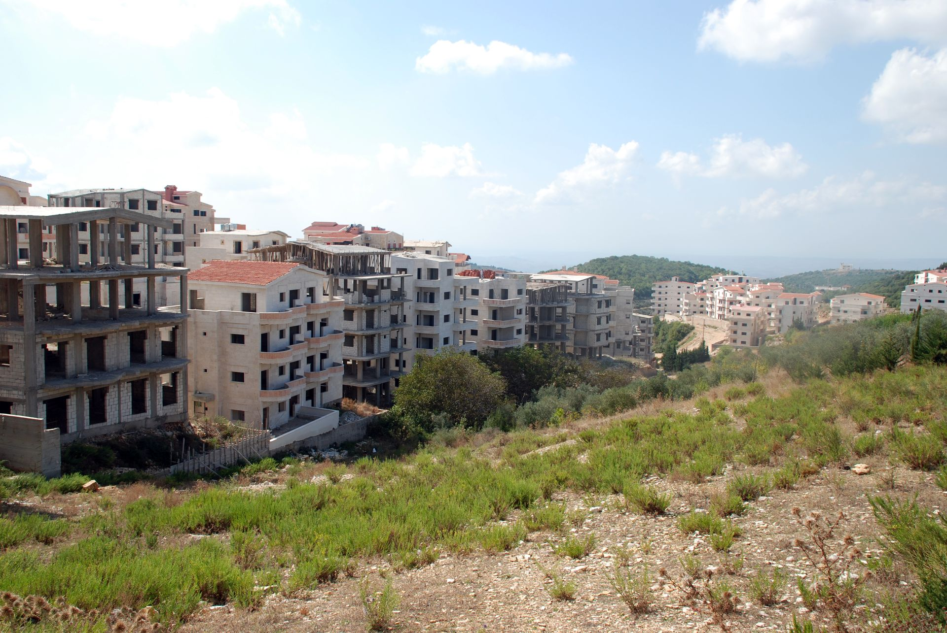 New buildings 10 km west of Slinfah, Jebel Aansariye, Syria